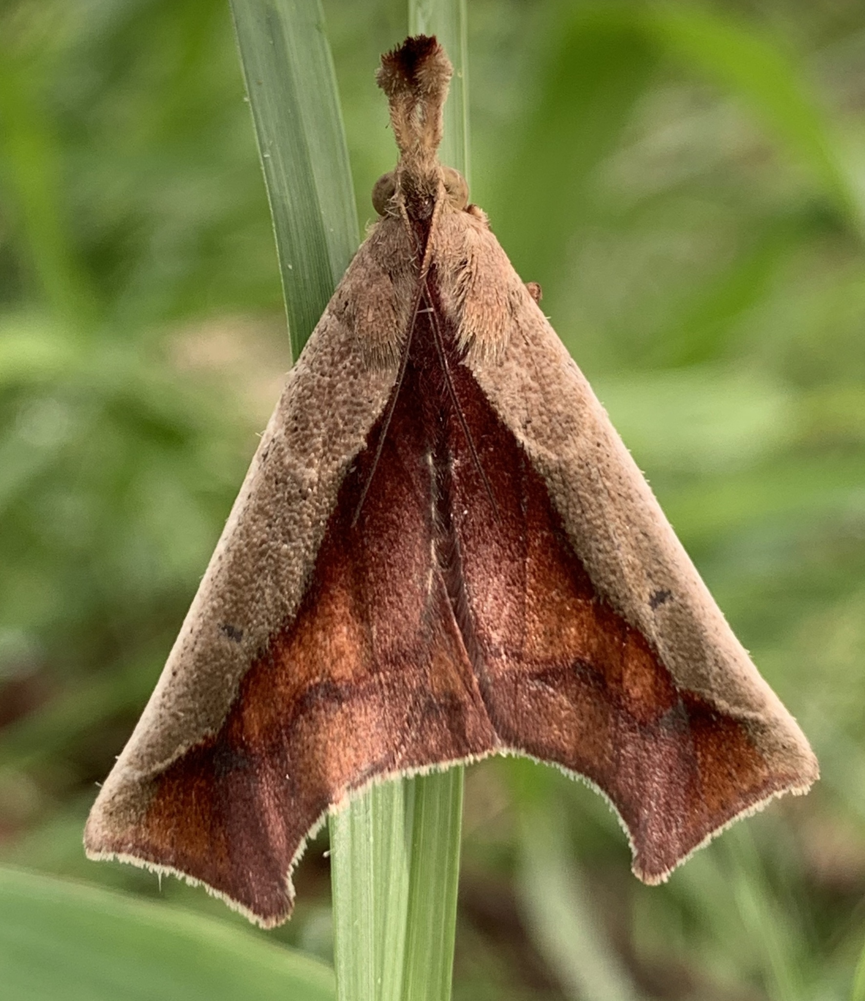 Arbinia todilla. Species of insect.